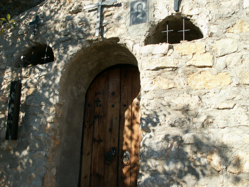 Saint Petka Chapel near Tran, Bulgaria.